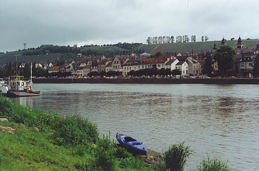 The Moselle river at Wasserbillig